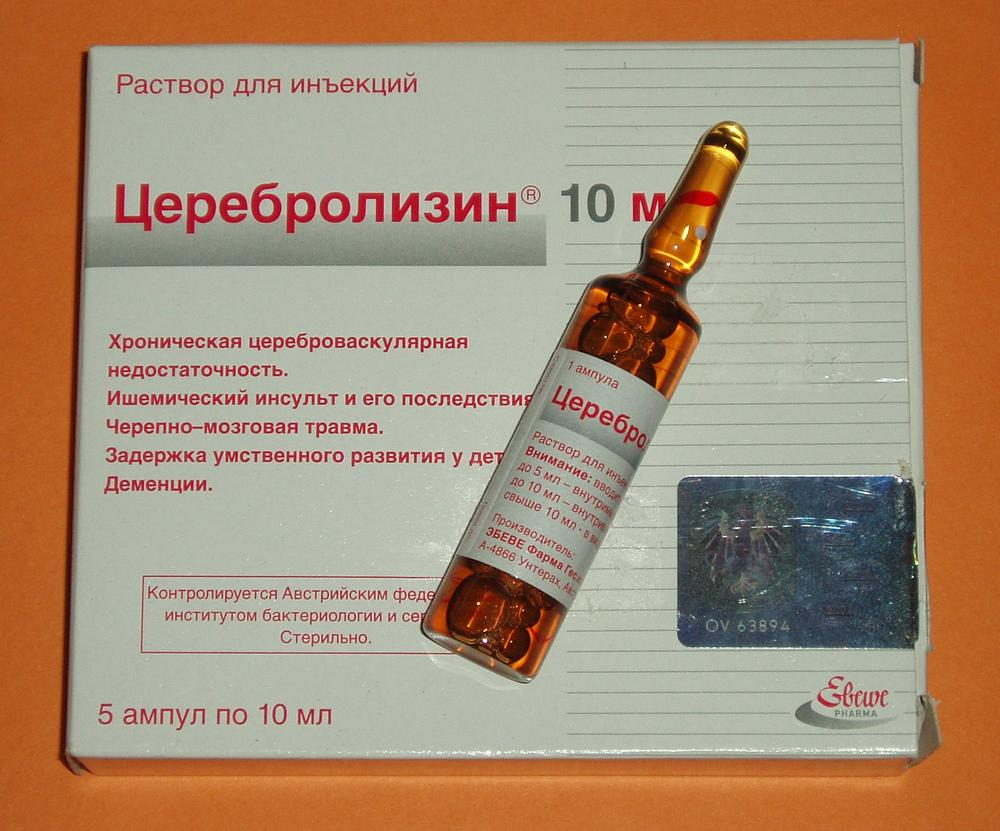 Cerebrolysin